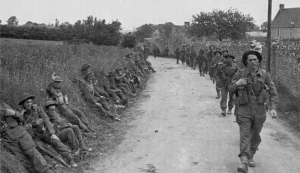 Infantry of 50th Division moving forward near St Gabriel, 6 June 1944